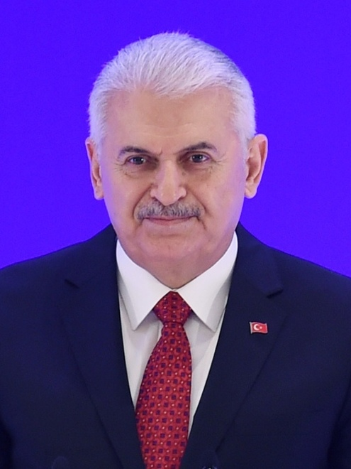 Prime Minister of Turkey, Binali Yıldırım at opening ceremony of the 6th Global Baku Forum, Baku, Azerbaijan.